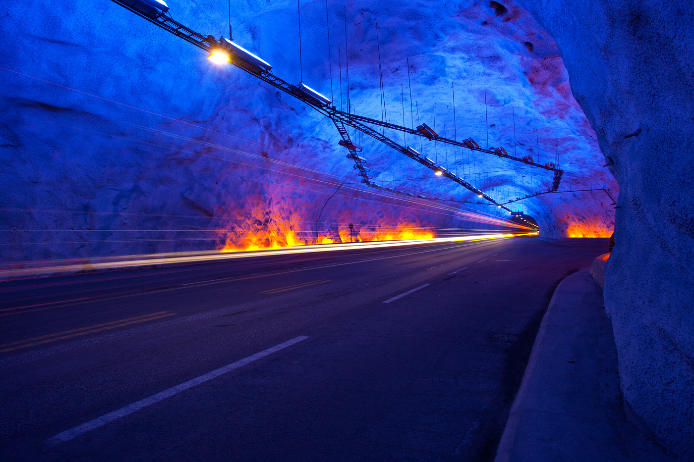 The Lærdalstunnel is the world’s longest road tunnel (24.5 km). The design of the tunnel takes into consideration the mental strain on drivers, so the tunnel is divided into four sections, separated by three large mountain caves (as you can see on this photo). The caves are meant to break the routine, providing a refreshing view and allowing drivers to take a short rest.